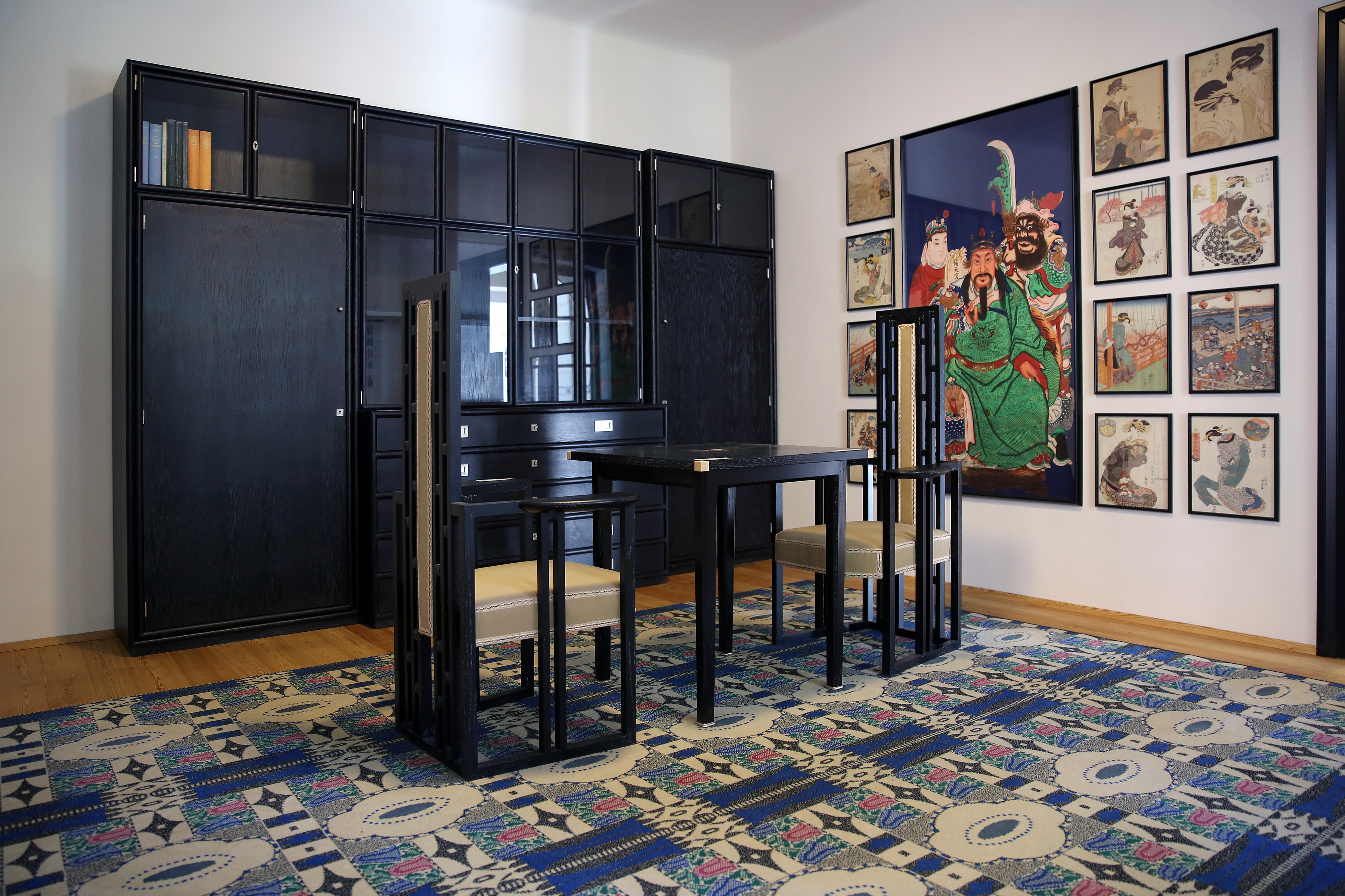 The reconstructed reception room of the so called Klimt Villa, Gustav Klimt's last residence in Vienna, Austria, from 1911 to 1918.